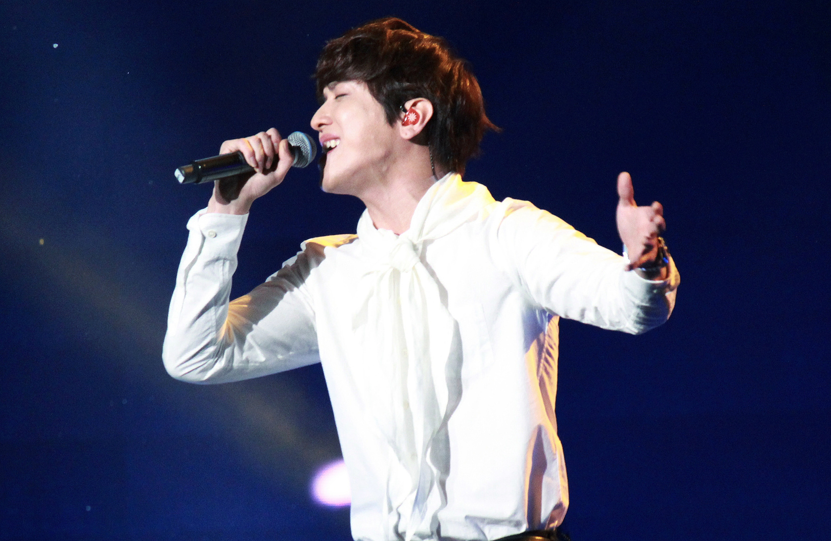 Jung Yong-hwa performing at the Top Chinese Music Awards in Shenzhen, China, on April 13, 2015.